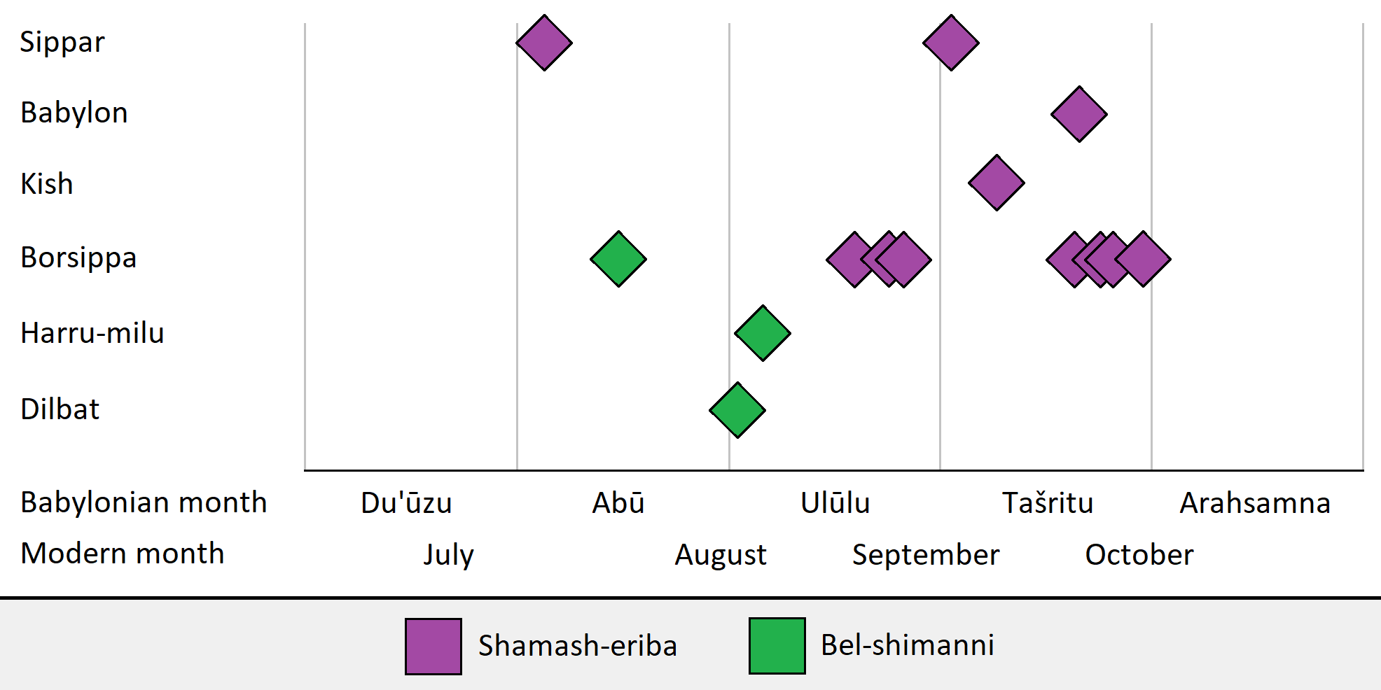 The dates of tablets attributed to the Babylonian rebel kings Bel-shimmani and Shamash-eriba in 484 BC. Based on (with info deriving from) a figure by Lendering (1998)